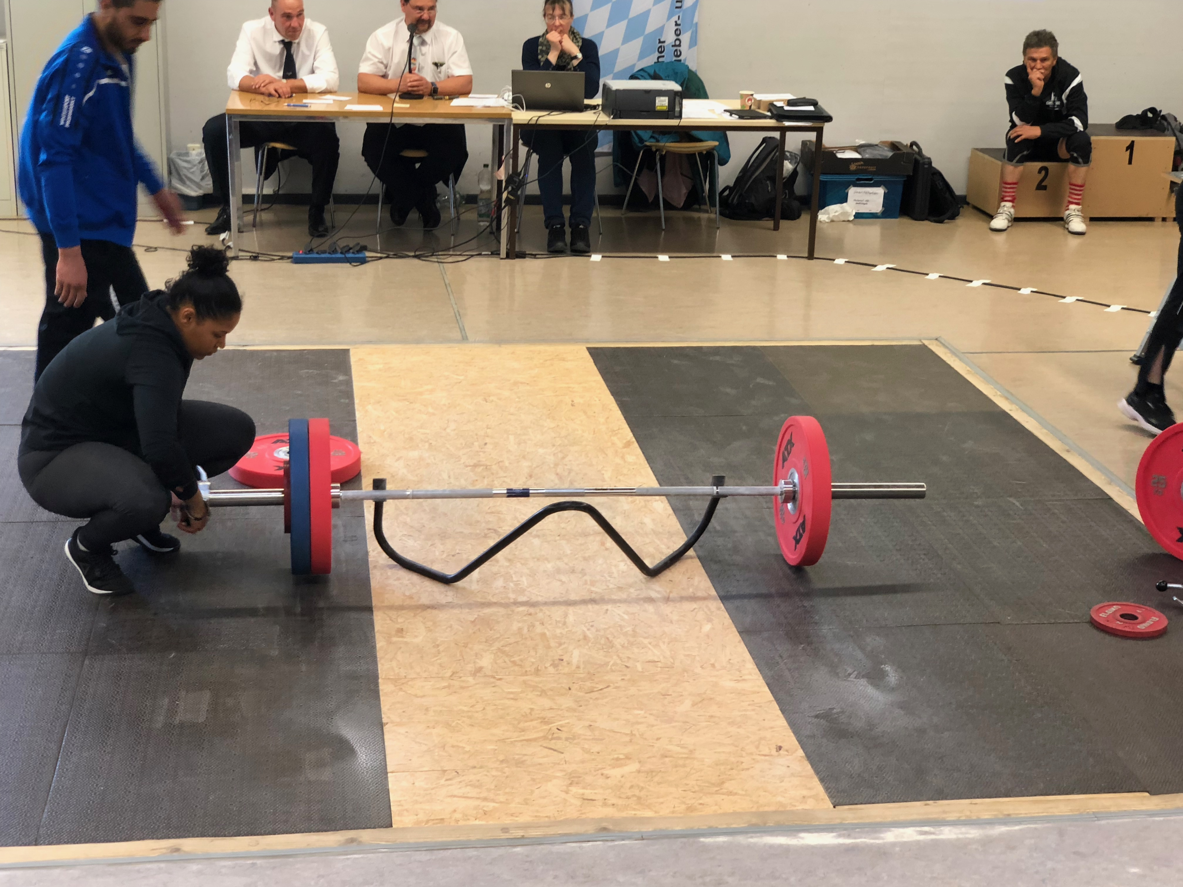 Loader